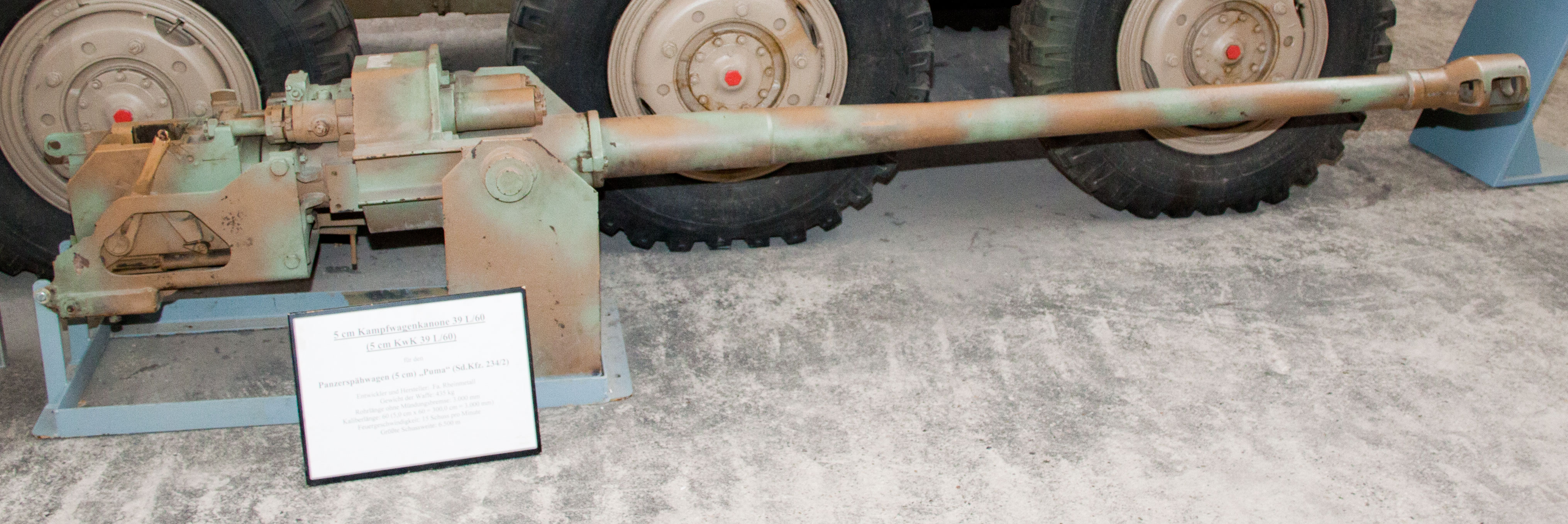 Kampfwagenkanone 5-cm-KwK 39 L/60, showed at the „German armoured fighting vehicle museum" in Munster, Germany, the location of the Munster Training Area camp. This particular armour vehicle gun was used as primary weapon system of a great number of special purpose vehicles, e.g. as follows: Panzerkampfwagen III (Sd.Kfz. 141/1) version J/L to M (serial equipment). A number of earlier versions have been reequipped by this gun as well. Panzerspähwagen Sd.Kfz. 234/2.